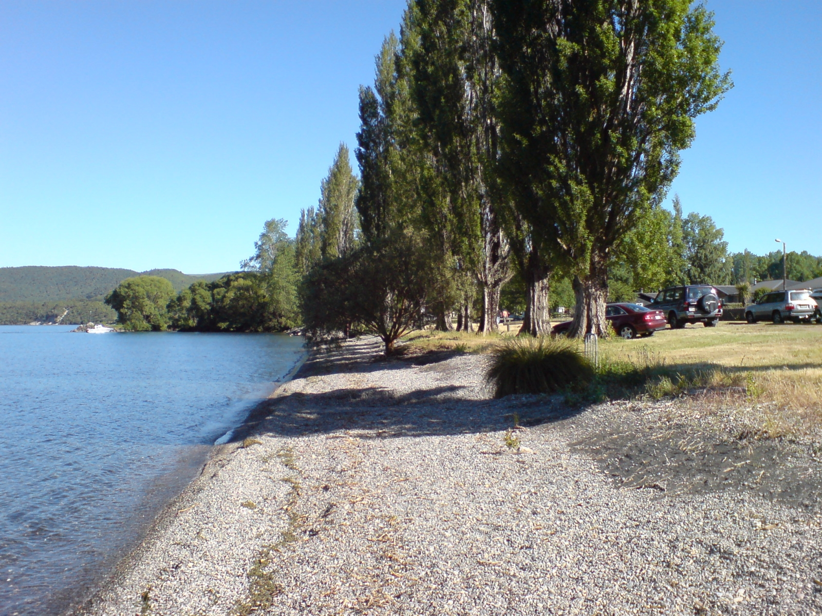 The Lake Taupo shoreline of Kinloch, Region of Waikato, New Zealand.